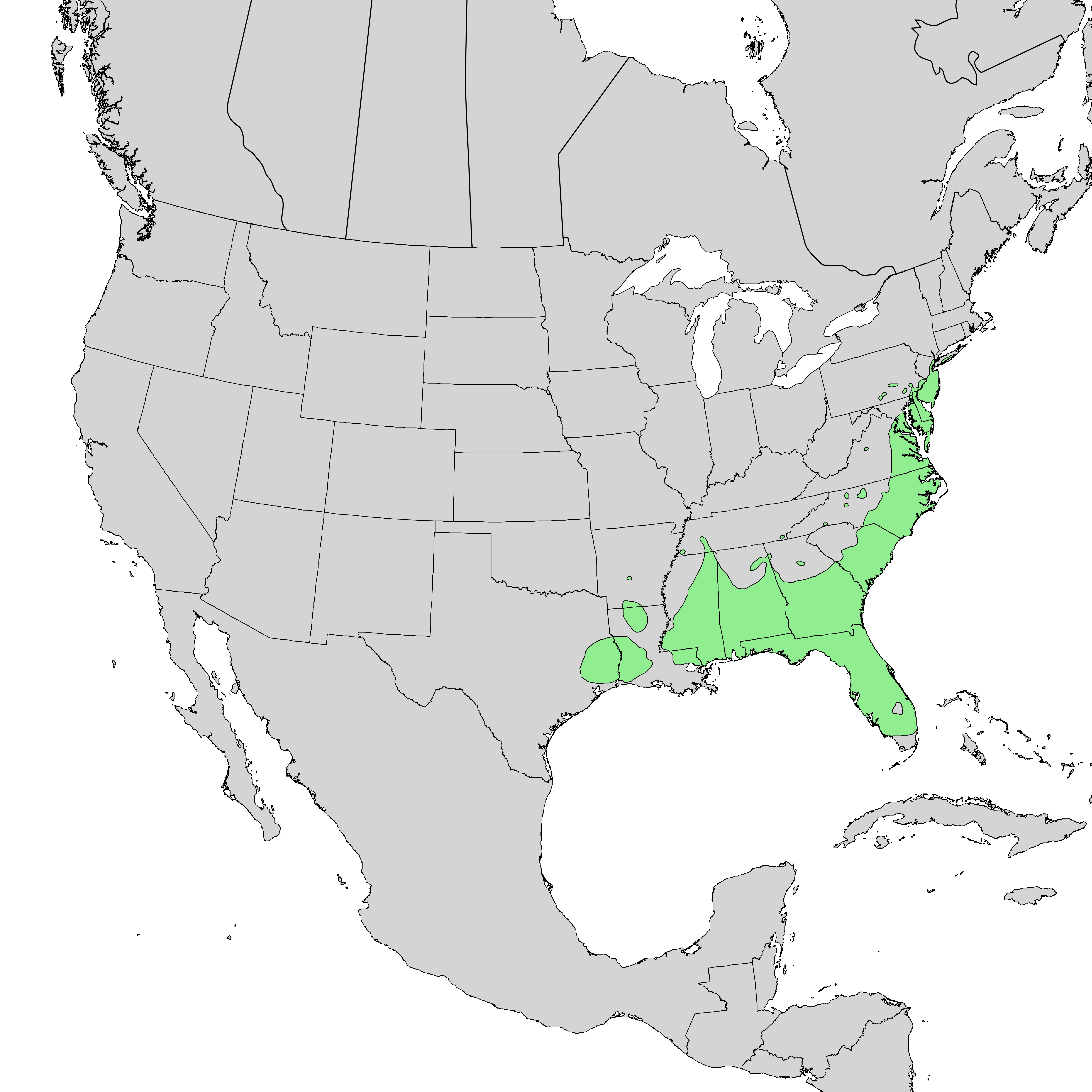 Natural distribution map for Magnolia virginiana (sweetbay magnolia)